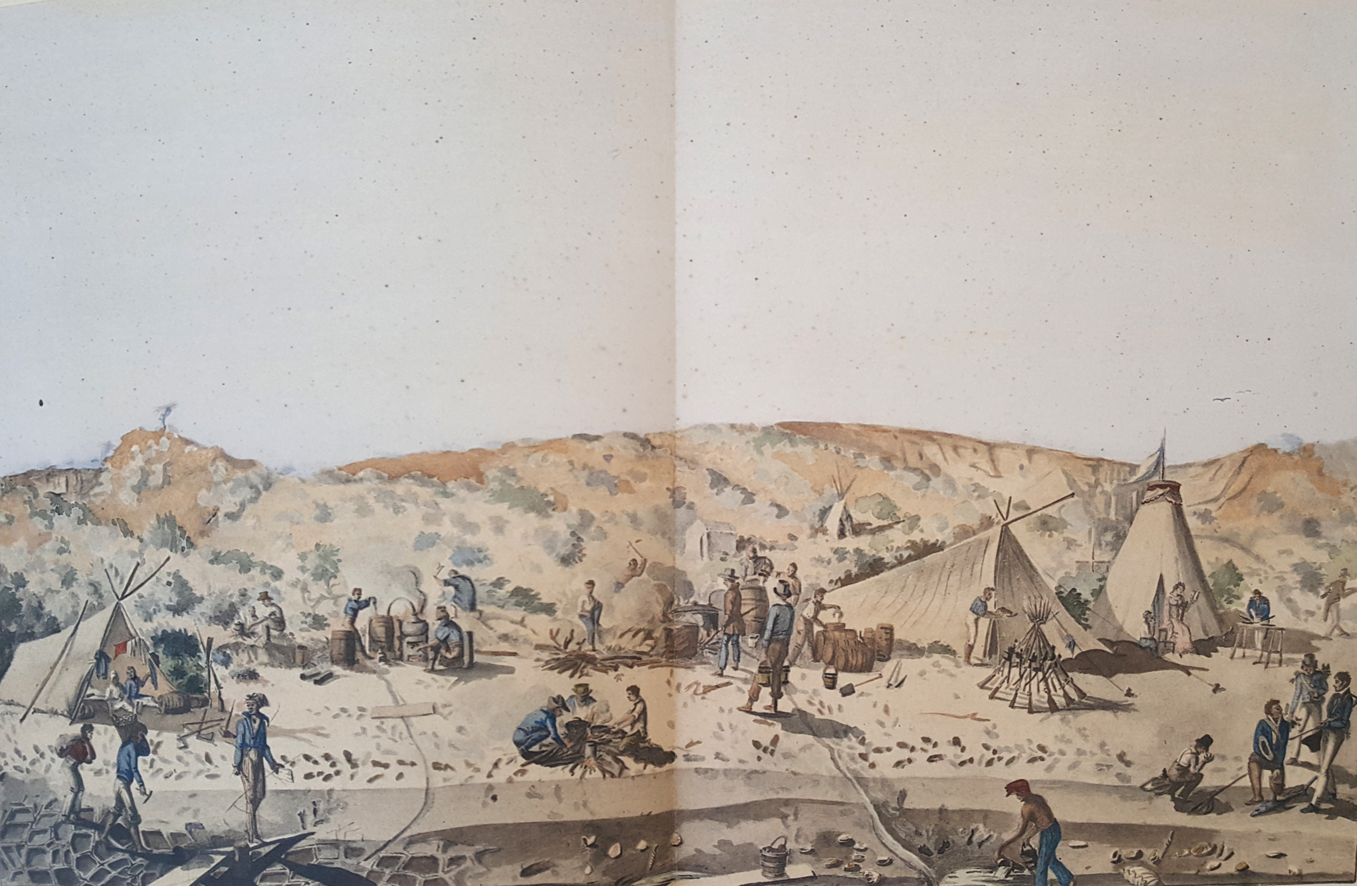 Shark Bay, 1818, reproductions of original water-colours painted on Freycinet voyage by J. Arago and A. Pellion, Campagne de l' "Uranie"(1817-1820), journal...d'après le manuscript original accampangé de notes, Charles Duplomb, 1927